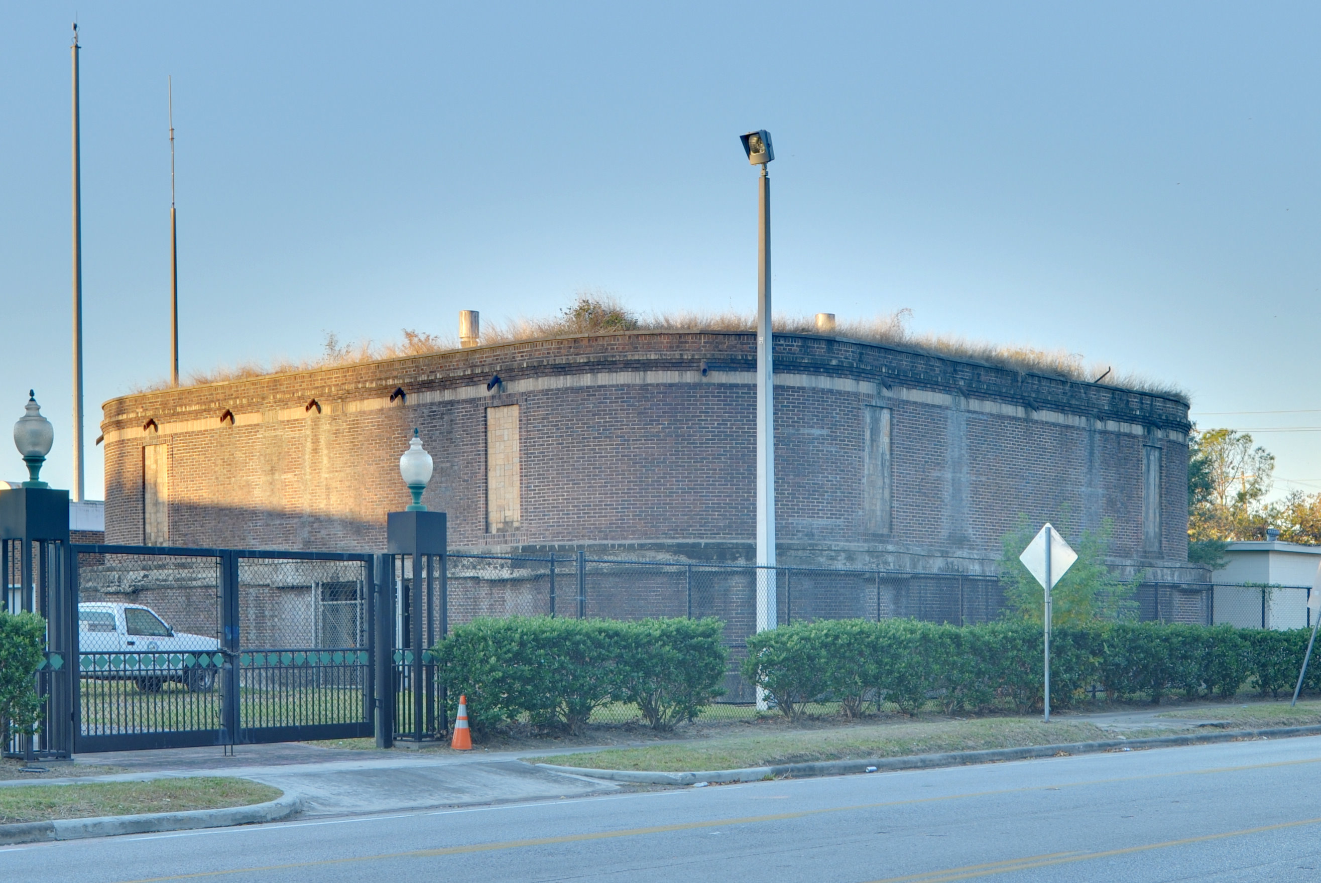 The Houston Heights Waterworks Reservoir, at West 20th and Nicholson Streets, Houston (Texas, USA) is listed in the National Register of Historic Places, United States Department of the Interior.